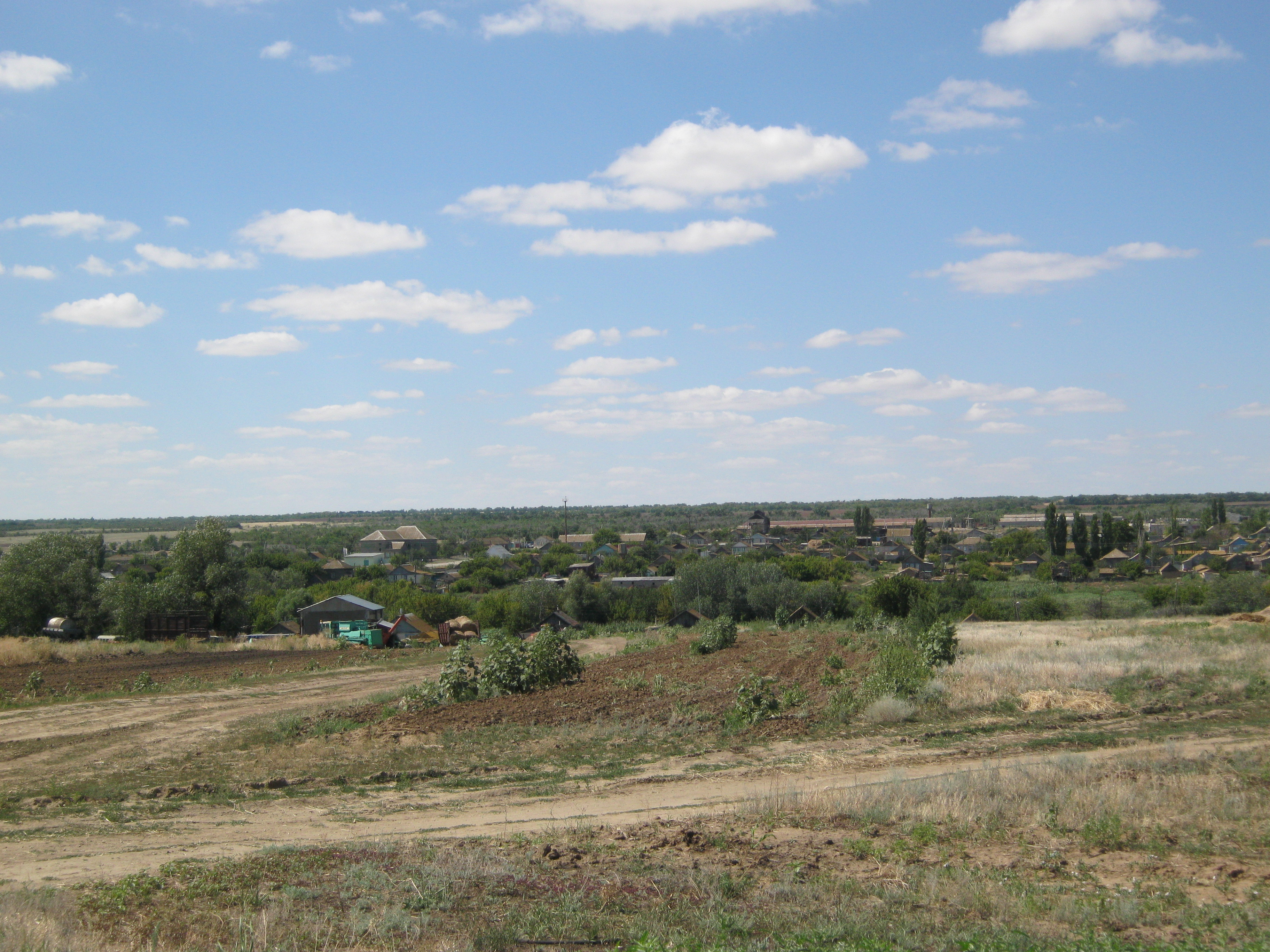 Малая Ивановка, лето 2012